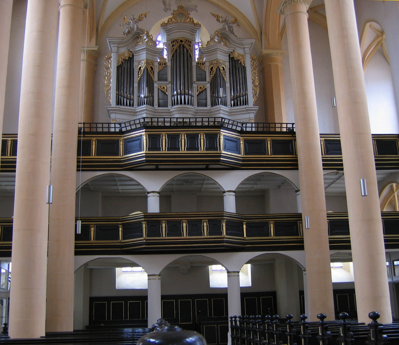 Iphofen, Bavaria, Germany, inside St. Veit church, view to organ gallery